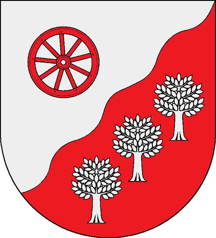 Coat of arms of the municipality Hamweddel in Schleswig-Holstein, Germany.